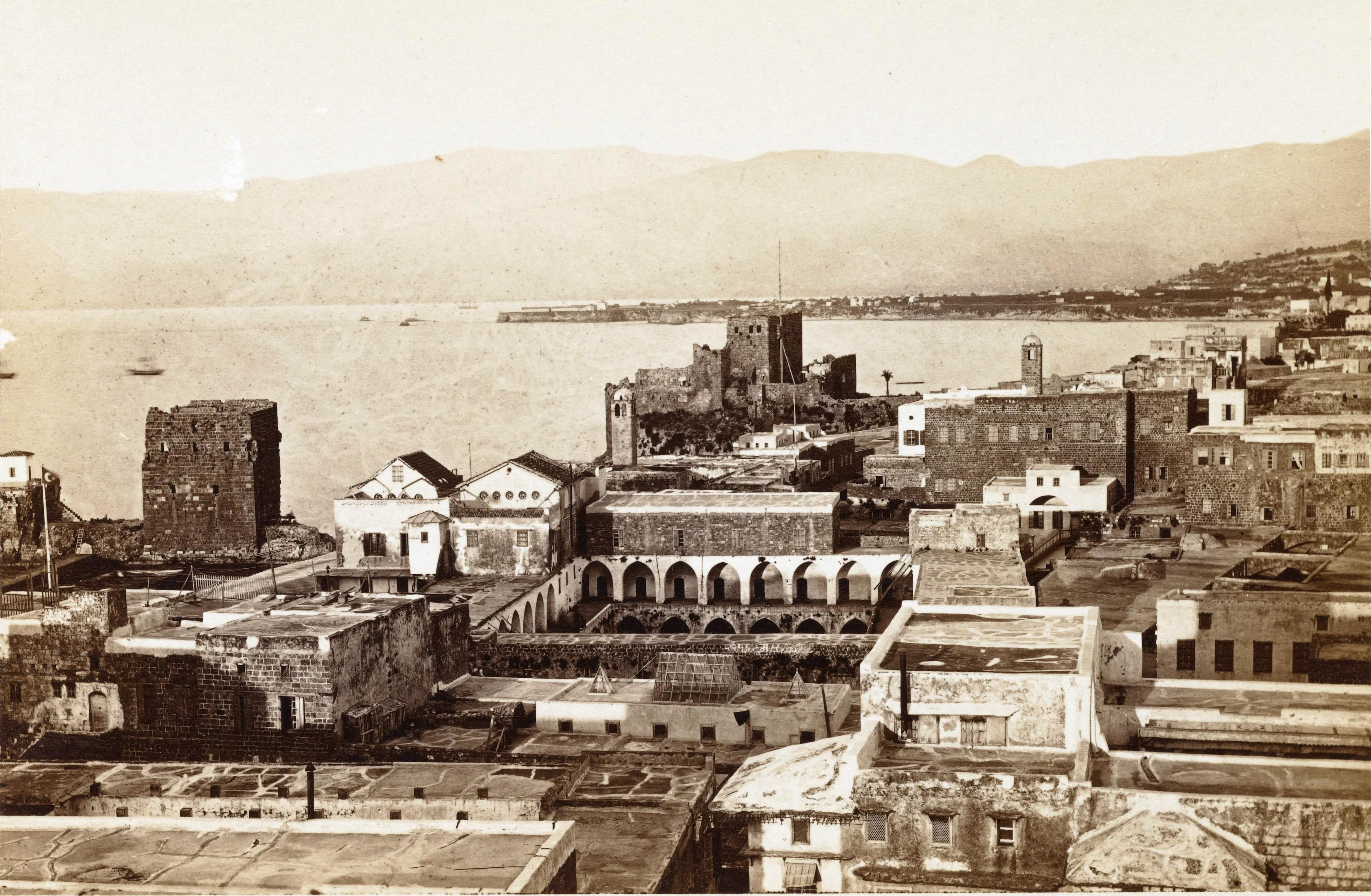 Buildings on the Beirut waterfront, , winter of 1868/1869. Photographer: Giacomo Brogi. Lenkin Family Collection of Photography at the University of Pennsylvania Librarie.